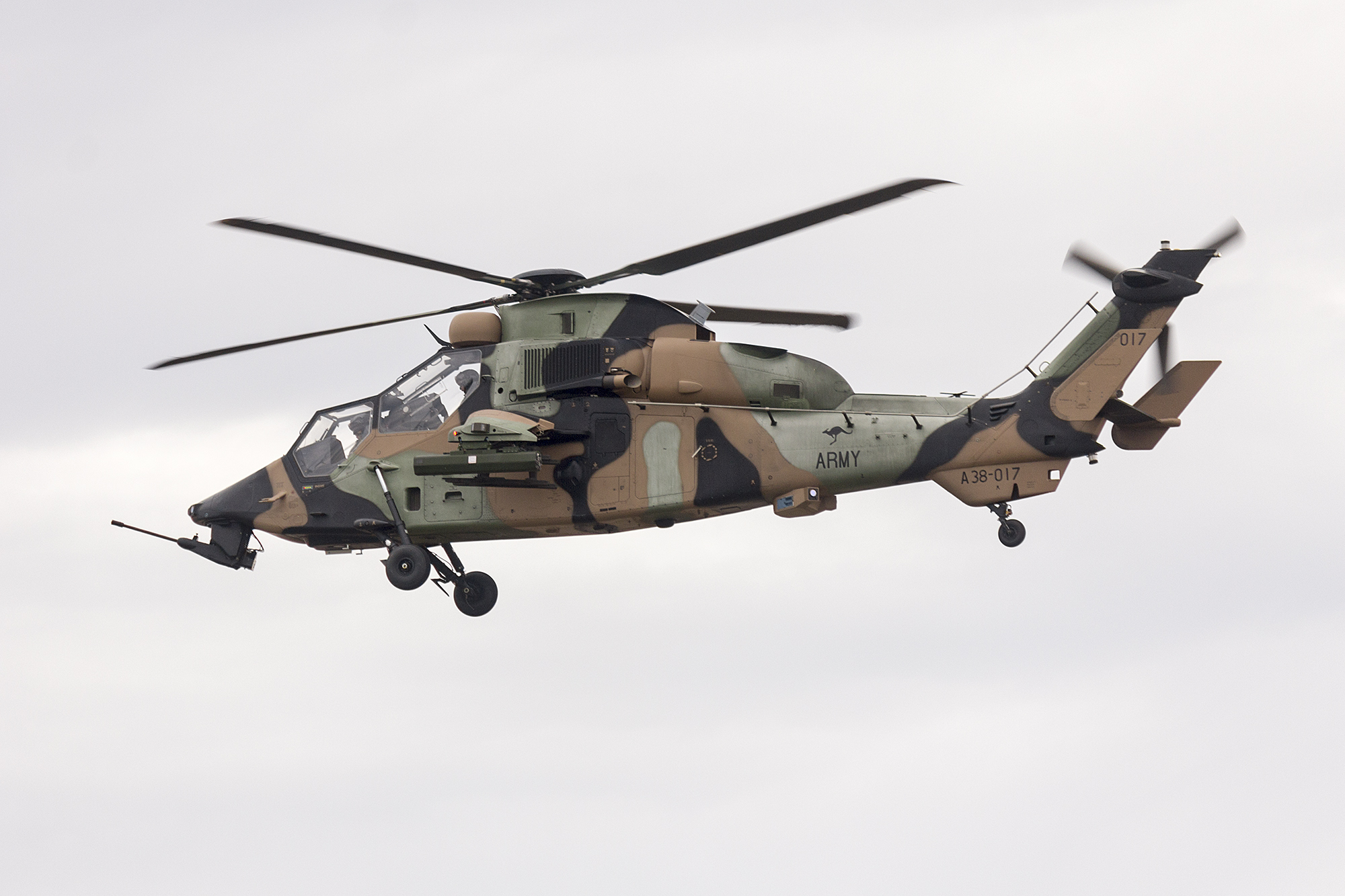 Australian Army (A38-017) Eurocopter Tiger ARH display at the 2015 Australian International Airshow.